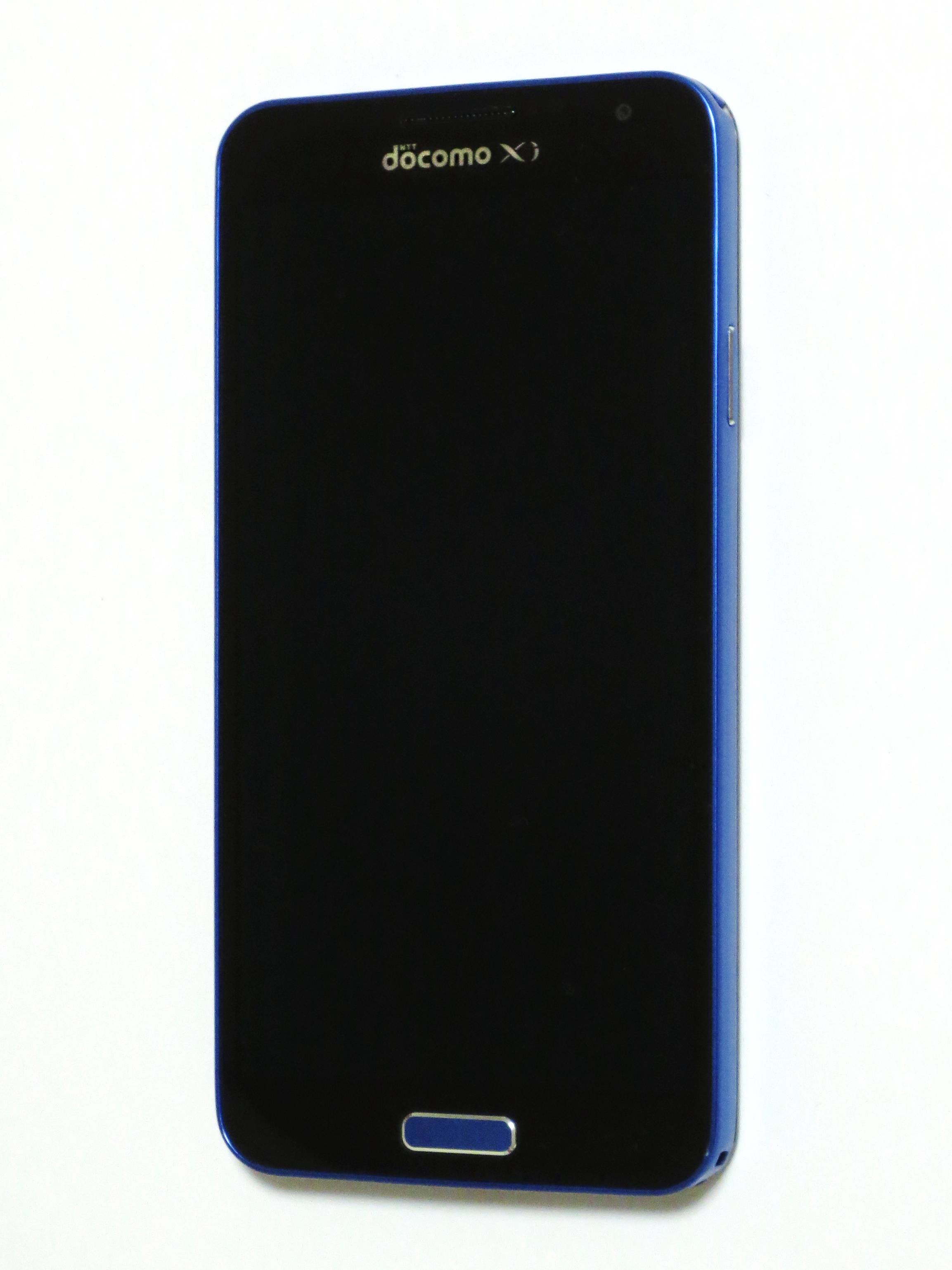 Samsung Galaxy J.